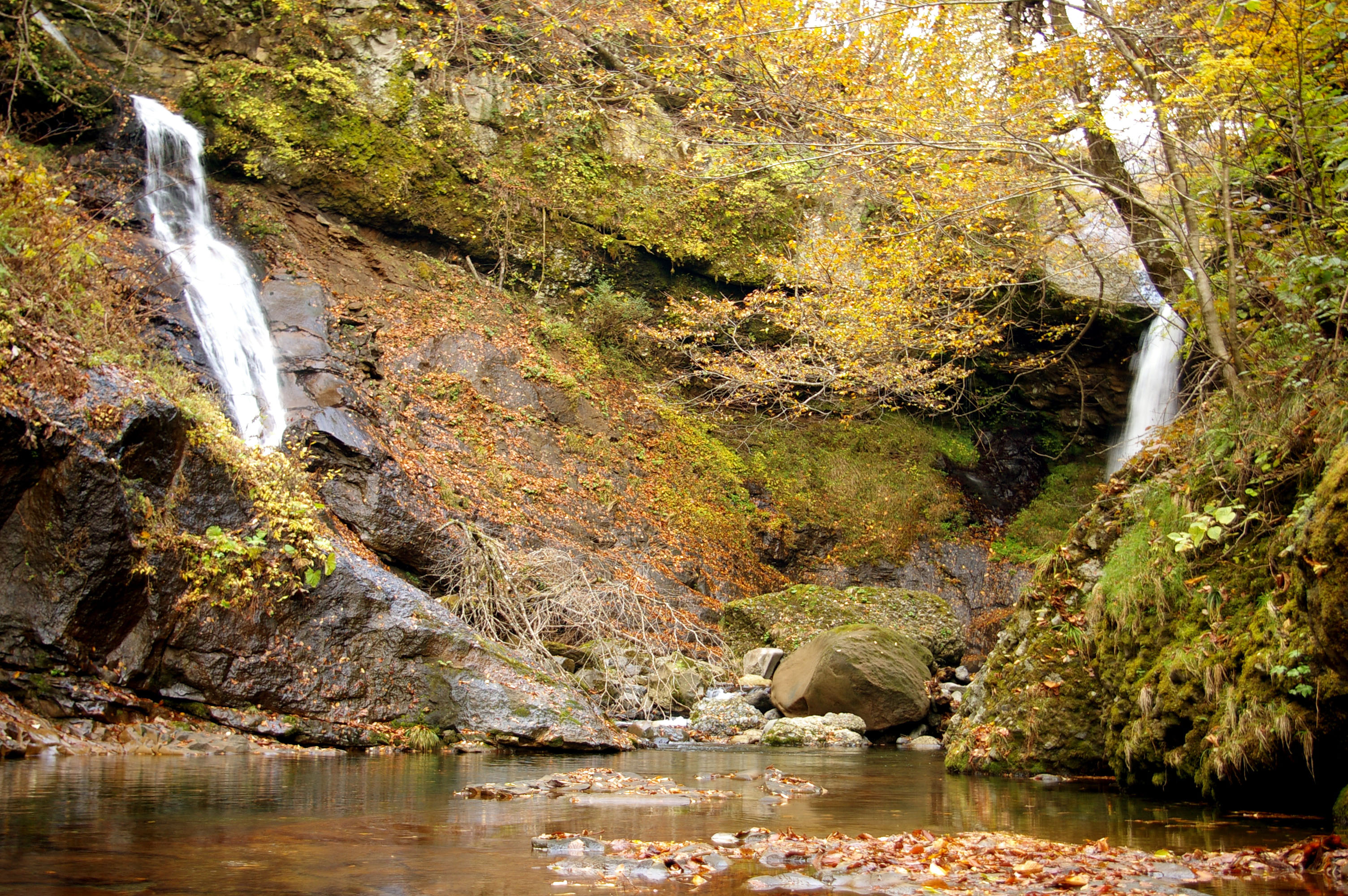 two falls in futakuchi kyokoku. right is ane falls, and left is imouto falls.